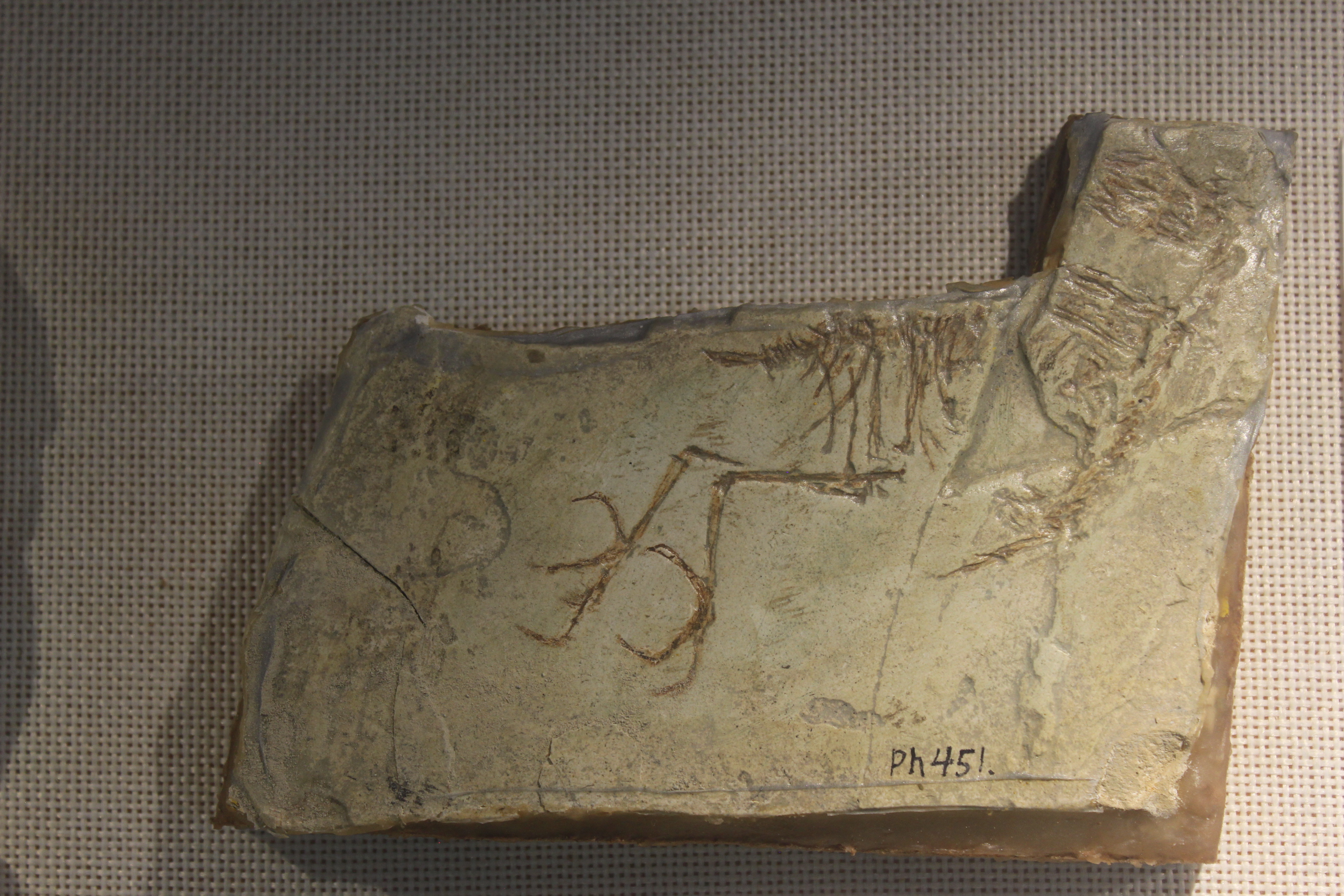 Fossil specimen of Sinornis santensis on display at the Beijing Museum of Natural History.